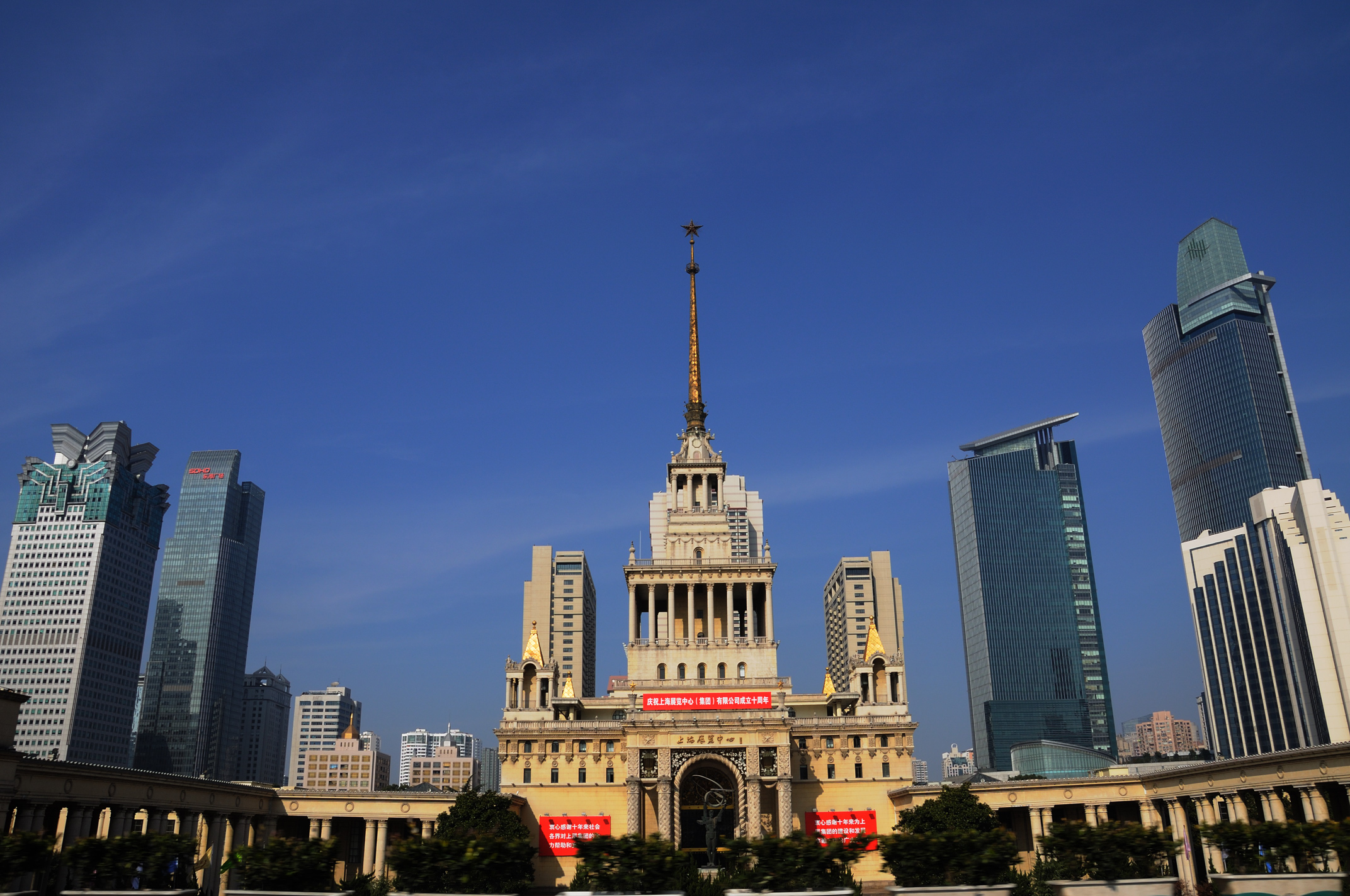 Shanghai Exhibition Center